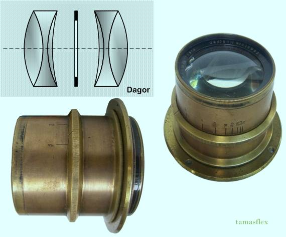 Dagor lens.